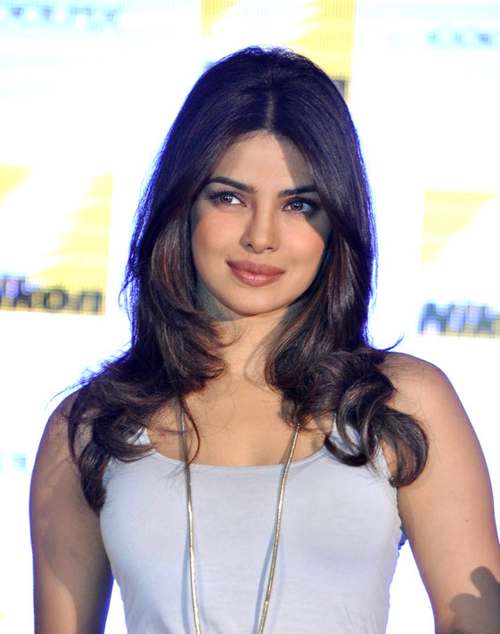 Priyanka nikon camera